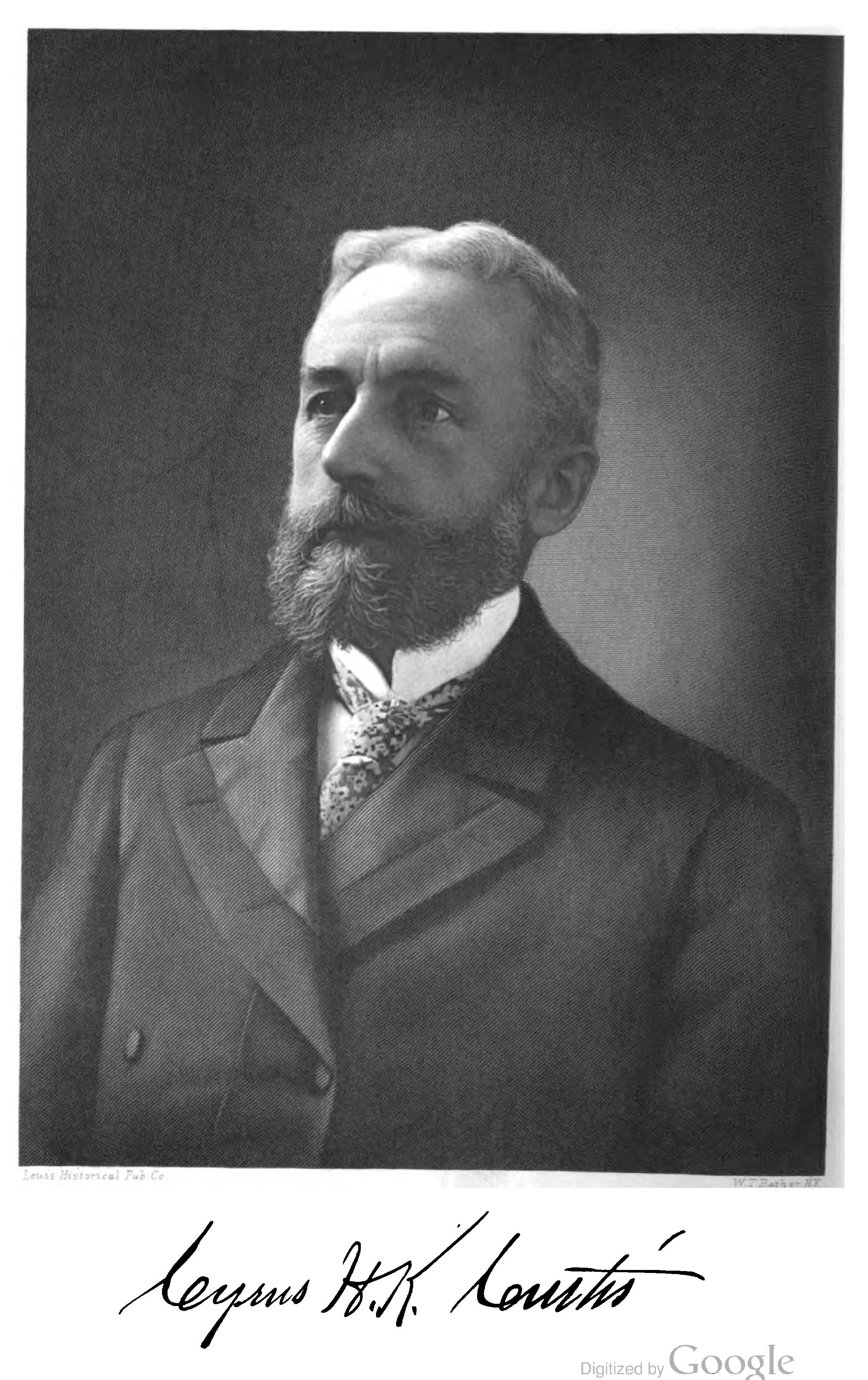 Cyrus Hermann Kotzschmar Curtis (June 18, 1850 – June 7, 1933) was an American publisher of magazines and newspapers.